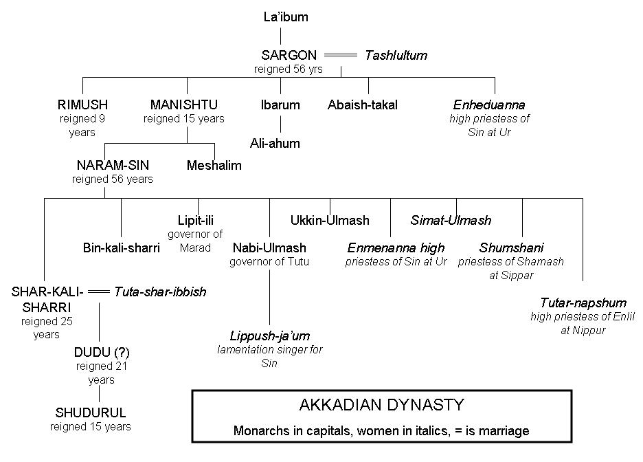 Genealogical chart of Akkadian dynasty.